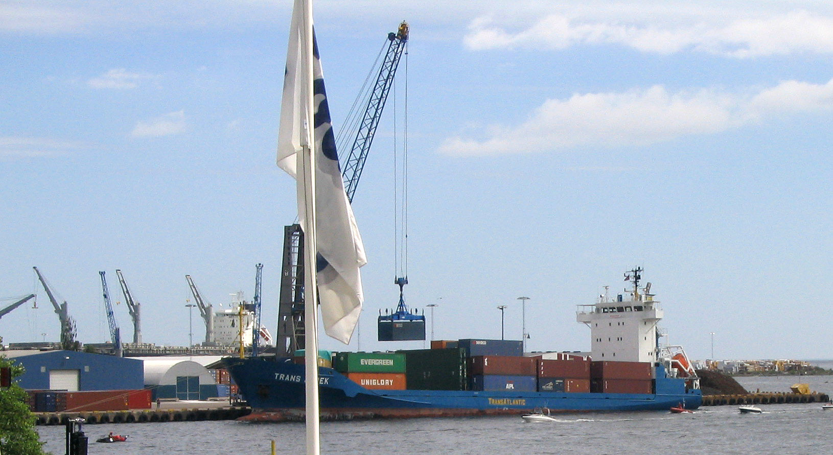 Lastning i Oskarshamns hamn 2007.